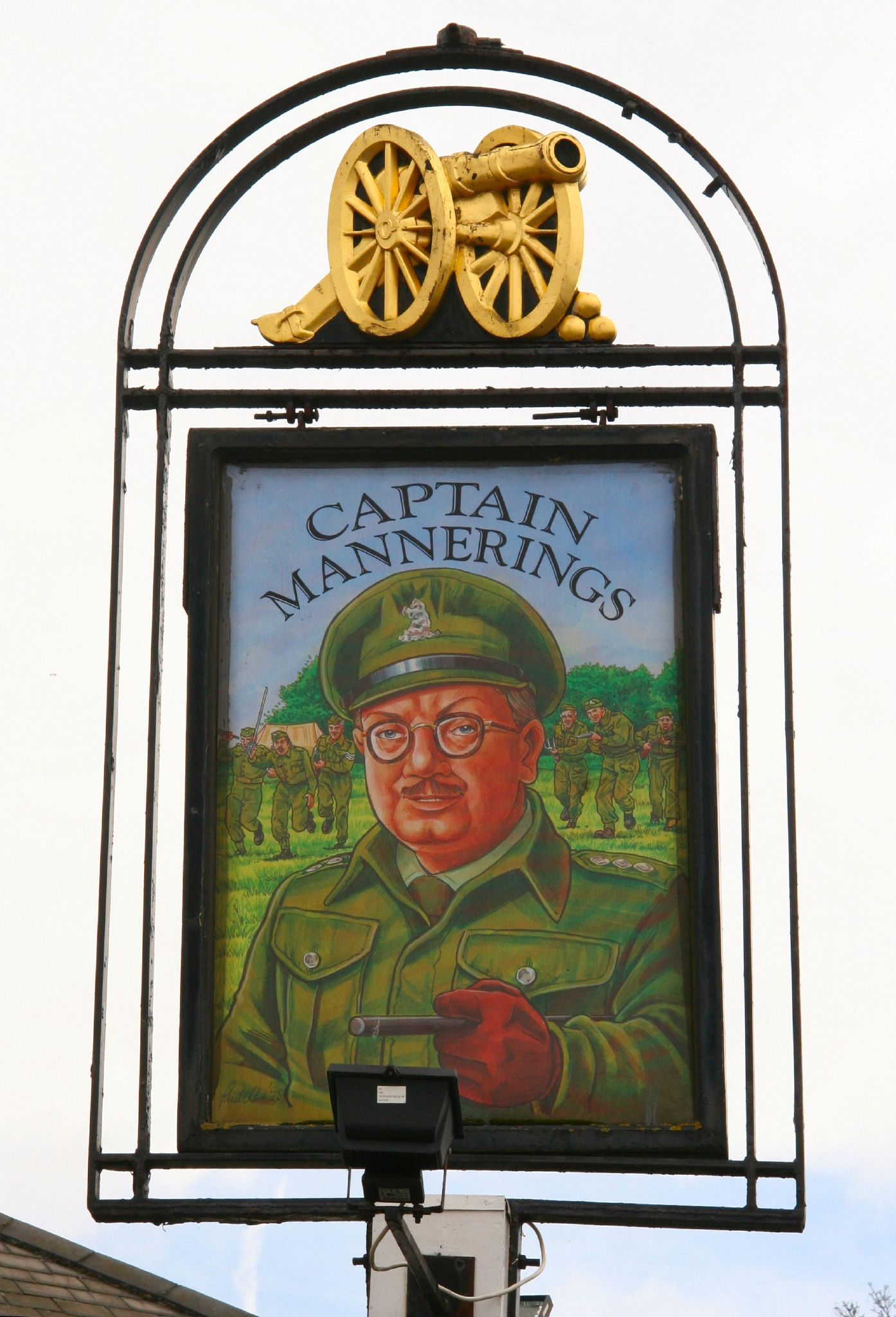 Captain George Mainwaring , pronounced "Mannering" is a character in Dad's Army, a British sitcom about the Home Guard in the Second World War. The show was set in the fictional seaside town of Walmington-on-Sea, on the South Coast of England (though it was mostly filmed in and around Thetford, Norfolk) This Pub was named after Captain 'Mannering' is in Shoeburyness, not far from my home.